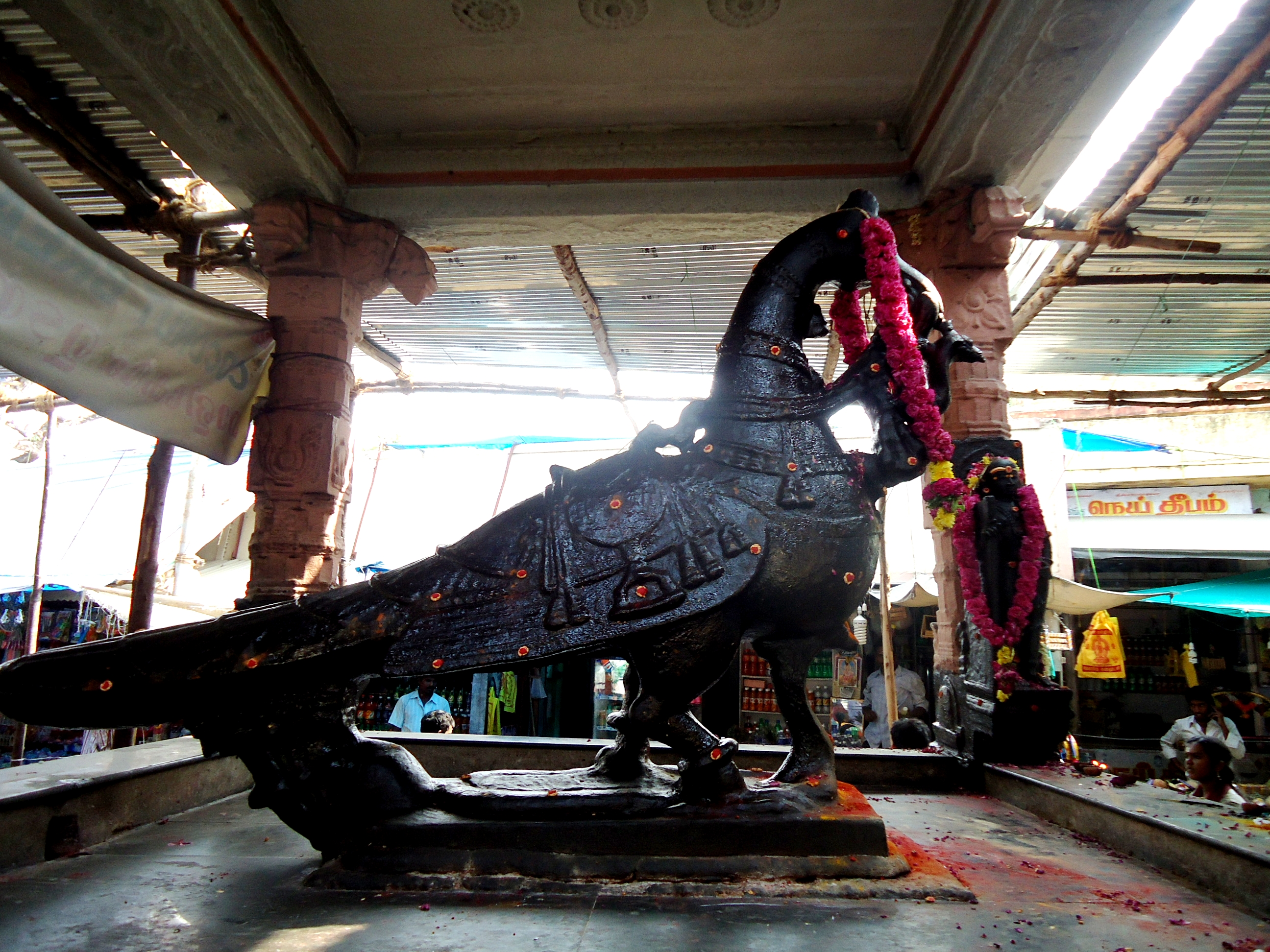 Palani Statue of Peacock